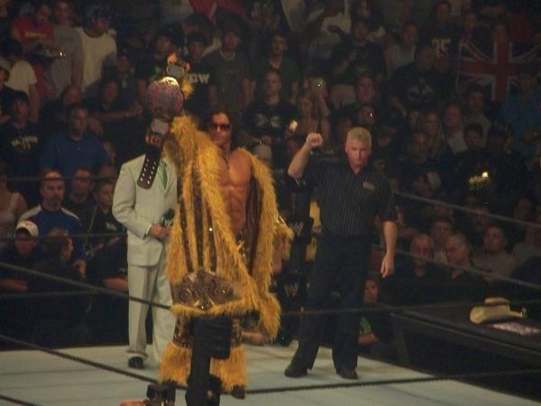 A picture of John Morrison at an ECW/Smackdown! taping in Cincinnati, Ohio